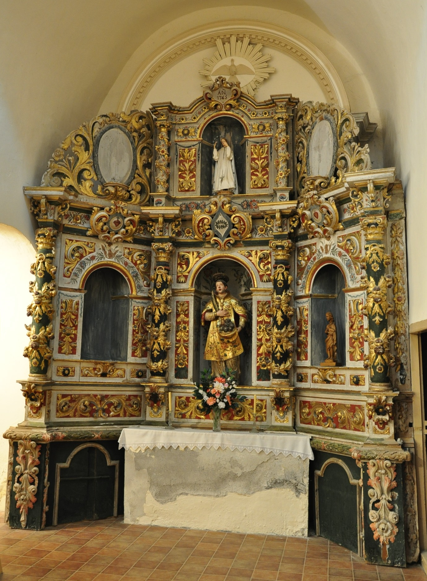 Altarpiece of St. Stephen (1745) from Castilló de Tor, a village in the municipality El Pont de Suert (Alta Ribagorça district, Catalonia, northern Spain). This altarpiece is exhibited in the "Museu d'Art Sacre de la Ribagorça" (Museum of Holy/Religious Art of the Ribagorça), located in the old parish church of El Pont de Suert.